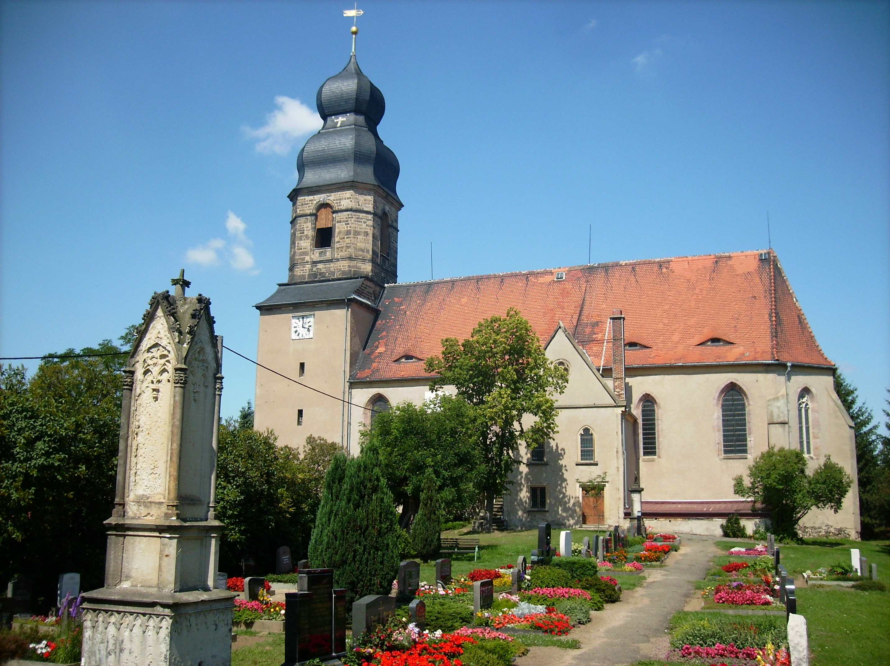 St. Mary's Church in Leuben (Leuben-Schleinitz, Meissen district, Saxony)